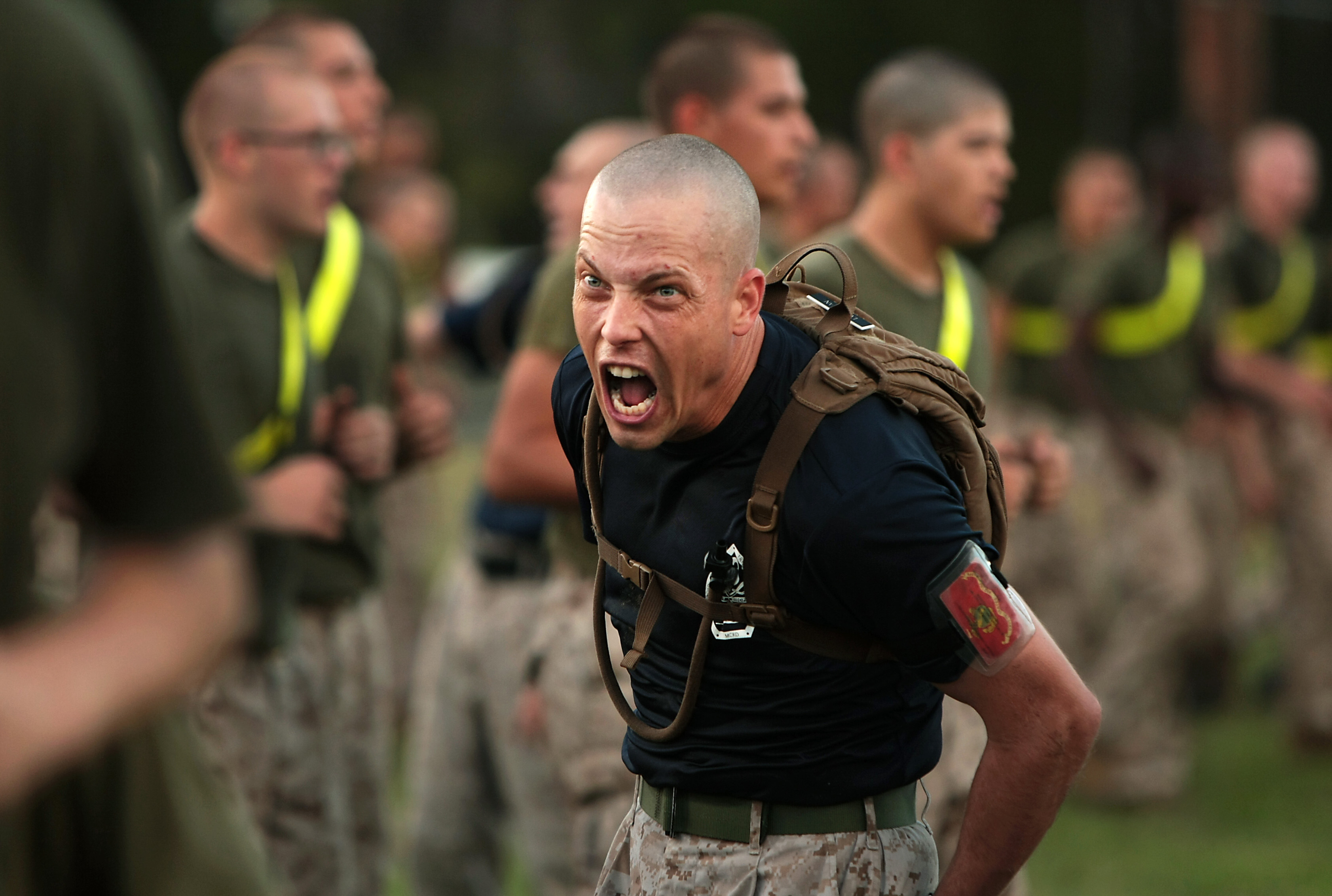 Sgt. William Loughran encourages recruits from Kilo Company, 3rd Recruit Training Battalion, to give 100 percent during physical training at Marine Corps Recruit Depot Parris Island, S.C., Sept. 18, 2013. Loughran joined the Corps in 2004 and became a drill instructor in 2012. “[Being a drill instructor] is the most demanding duty … yet probably the most rewarding thing I have ever done,” Loughran said. About 600 Marine Corps drill instructors train about 20,000 recruits who come to Parris Island annually. (U.S. Marine Corps photo by Cpl. Caitlin Brink/Released)